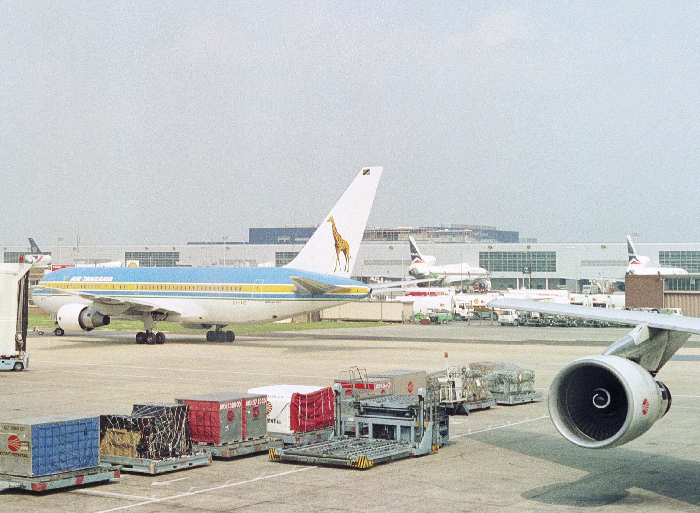 London - Gatwick (LGW / EGKK) UK - England, July 27 1991. On lease from Ethiopian Airlines. This is the aircraft that ran out of fuel and ditched in the Indian Ocean off the Comoros Islands in 1996, following a hijack.